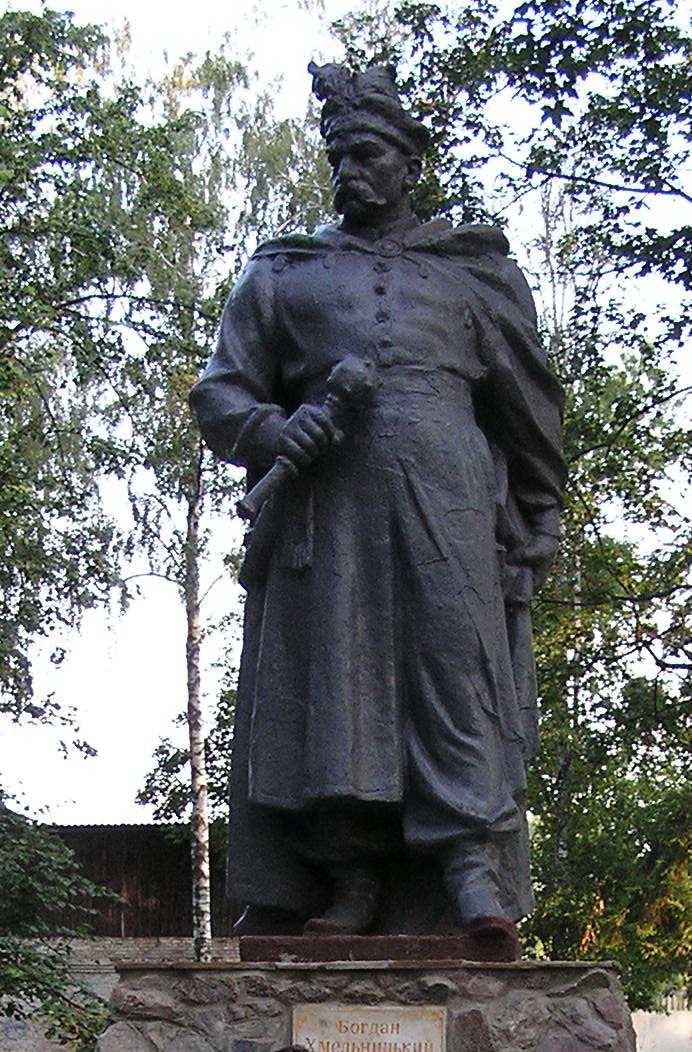 Bogdan-Khmelnitsky‘s monument in Borzna, Ukraine